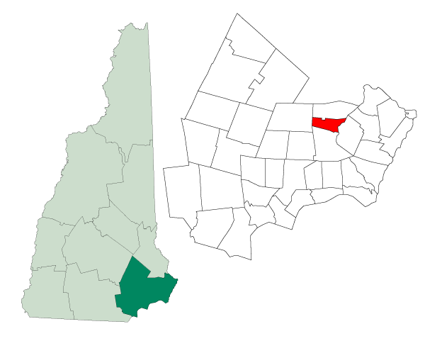 Map of a municipality in Rockingham County, New Hampshire